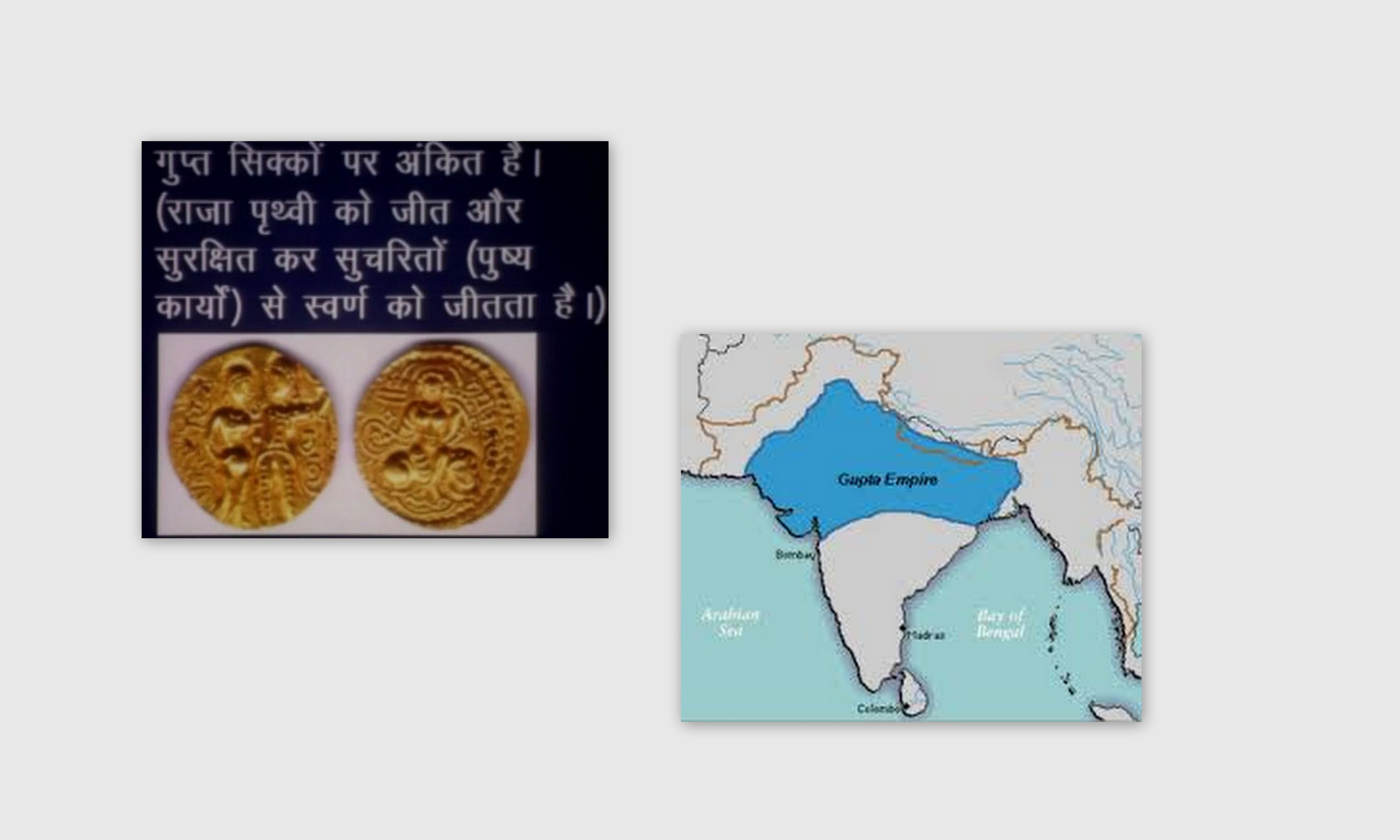 The kingdom of the Gupthas